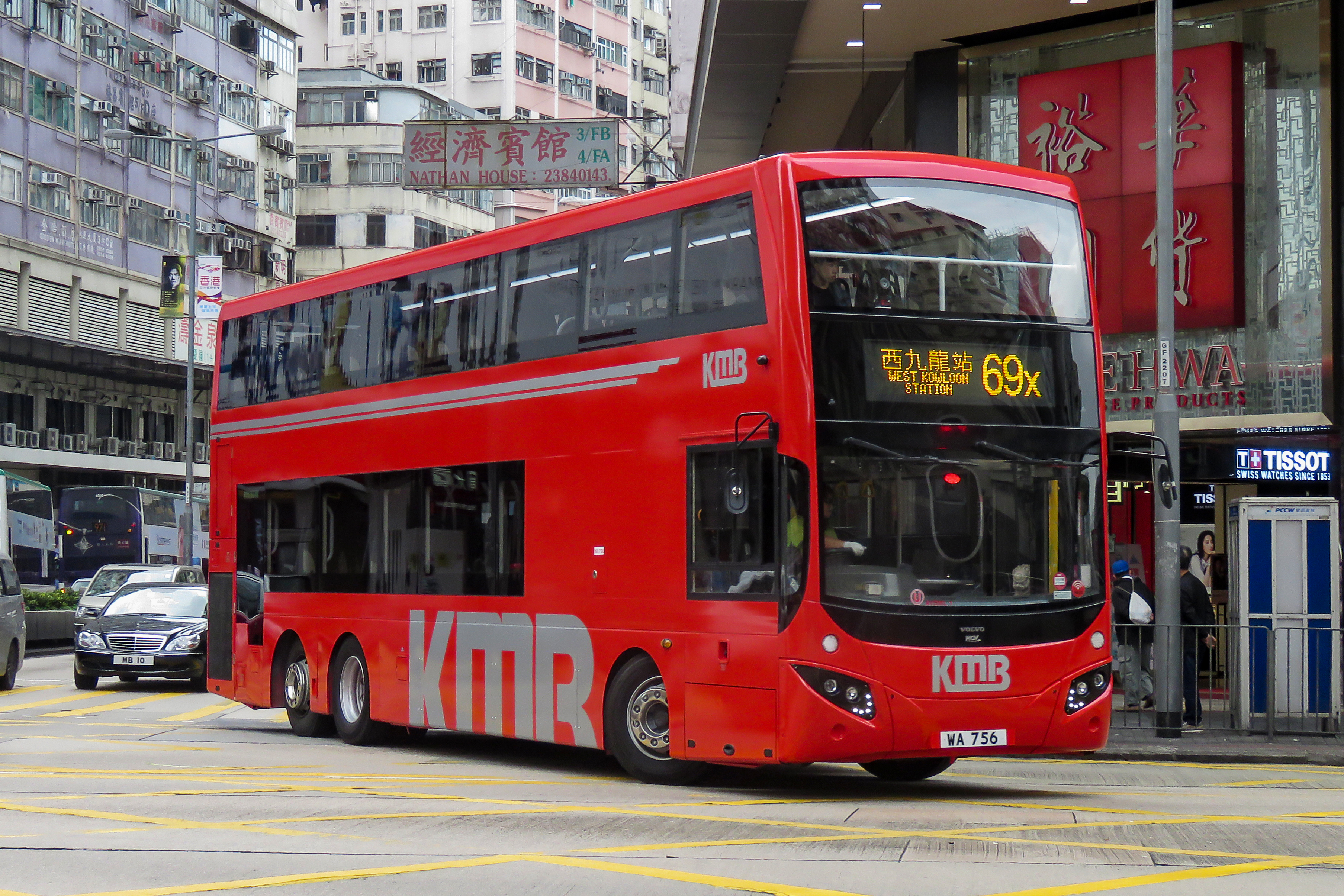 I'm just trying the angle at Yue Hwa Chinese Products Emporium, and didn't expect the Cleopatra... but it did come!